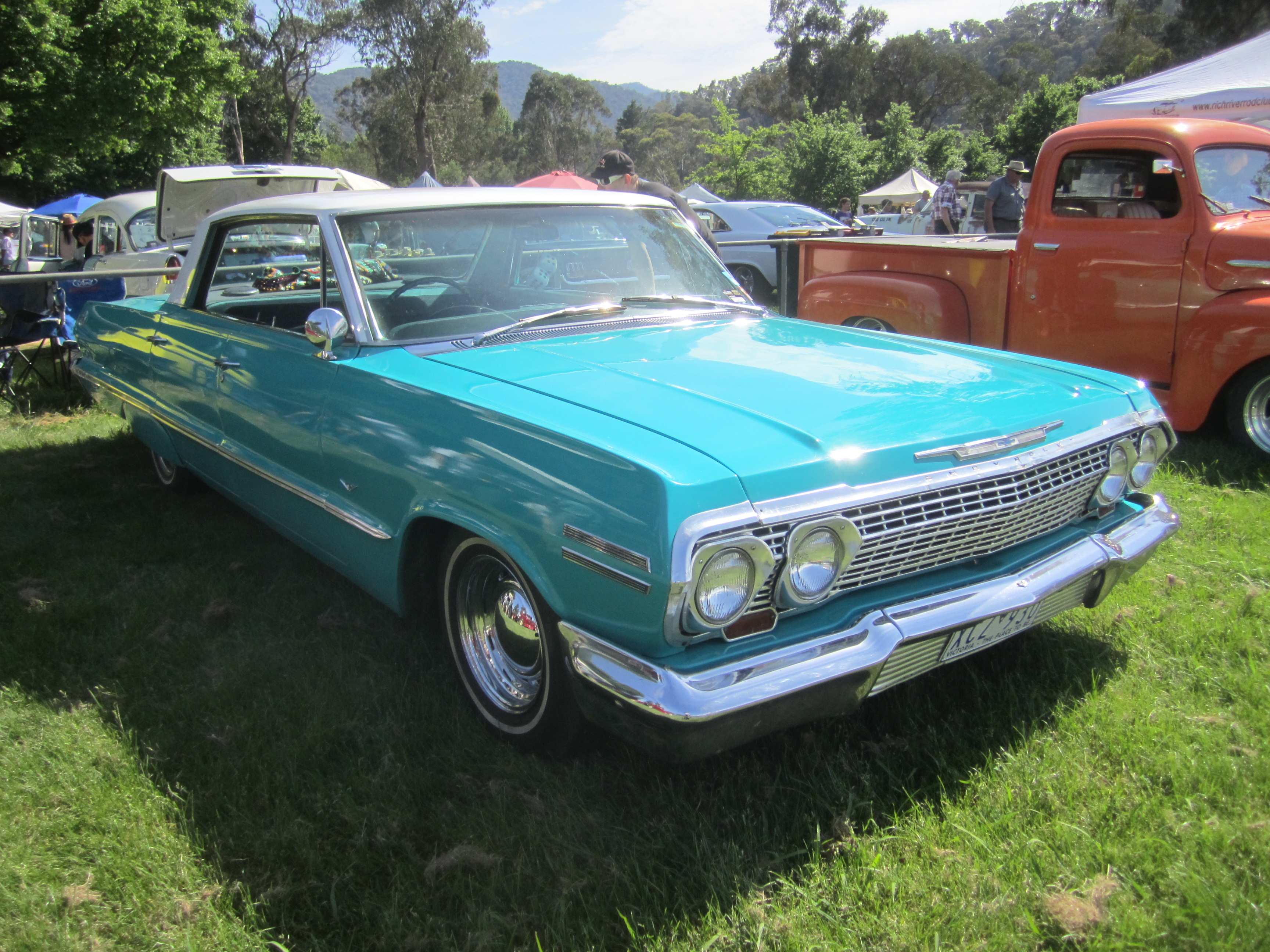 Available in Sedan, 2 and 4 door Hardtops, Coupe and Wagon. Biscayne, Belair or Impala. Engines; 235 6 cyl, 283, 327 and 409 V8s